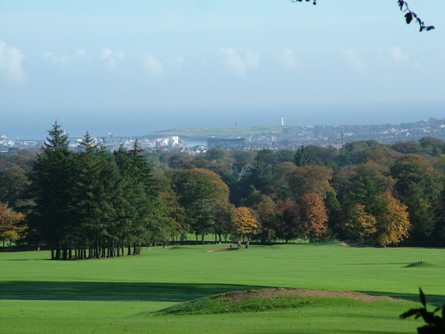 Hazlehead Golf Course This golf course enjoys excellent views over Aberdeen and out to sea. Girdleness Lighthouse can be seen in the distance. In the centre of the view is the Talisman Oil Company Offices on Holburn Street.